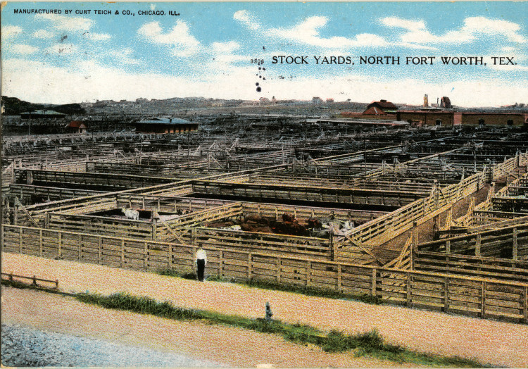 Stock yards, Fort Worth, Texas